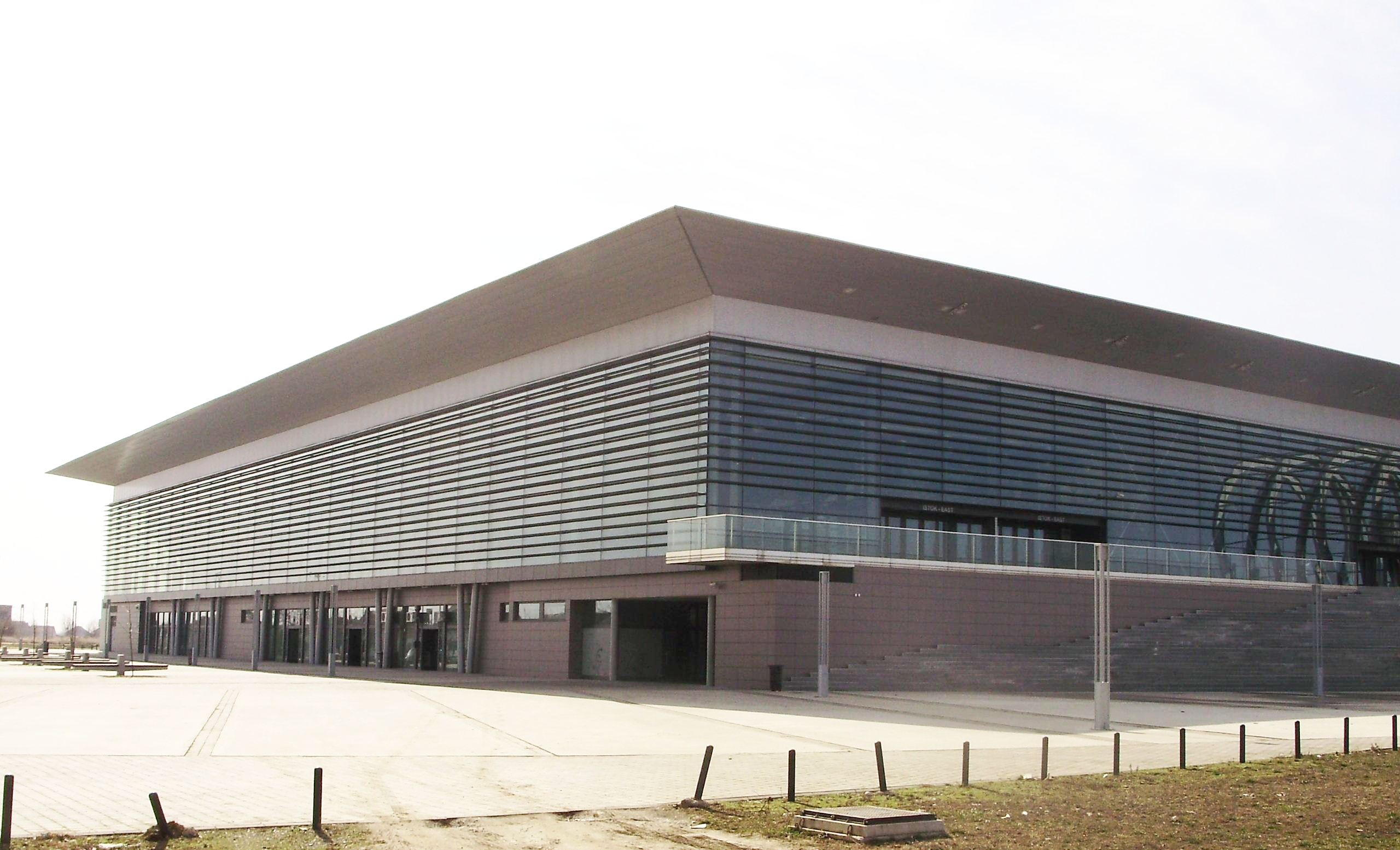 Gradski vrt Hall in Osijek, Croatia.